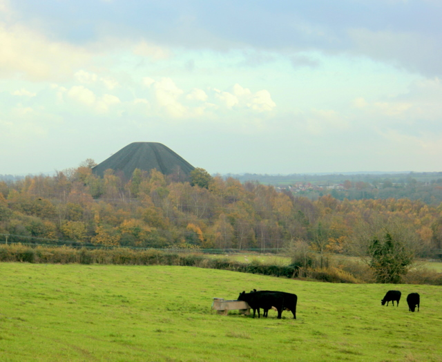 East of Old Mills Lane